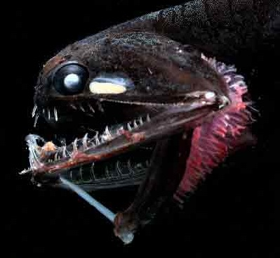 This deep-sea fish, Photostomias guernei, has a built-in bioluminescent "flashlight" it uses to help it see in the dark.